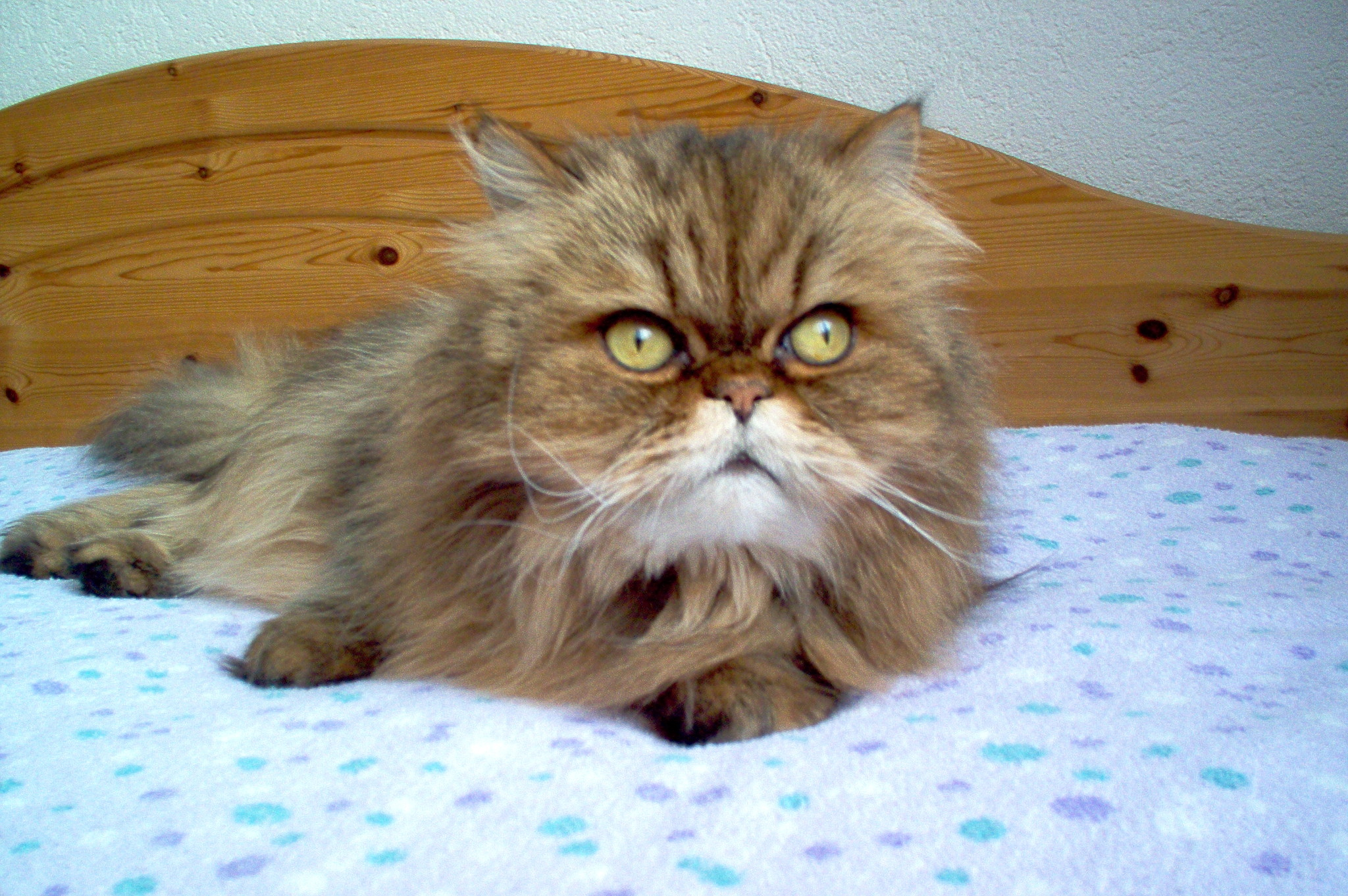 Persian tom-cat, photo by Ilja Mack